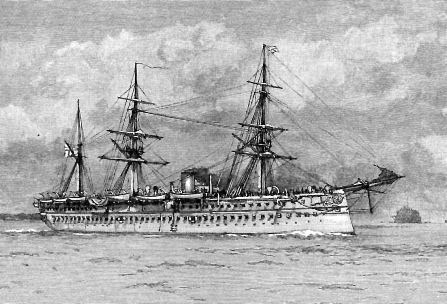 British troop transport ship HMS Jumna.